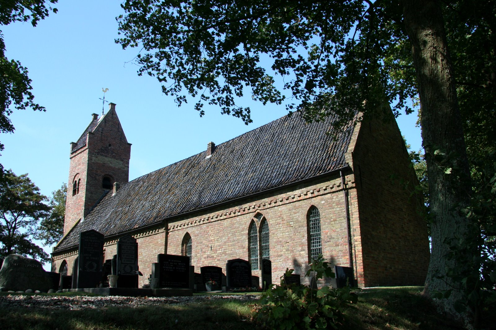 Kerkje van Finkum